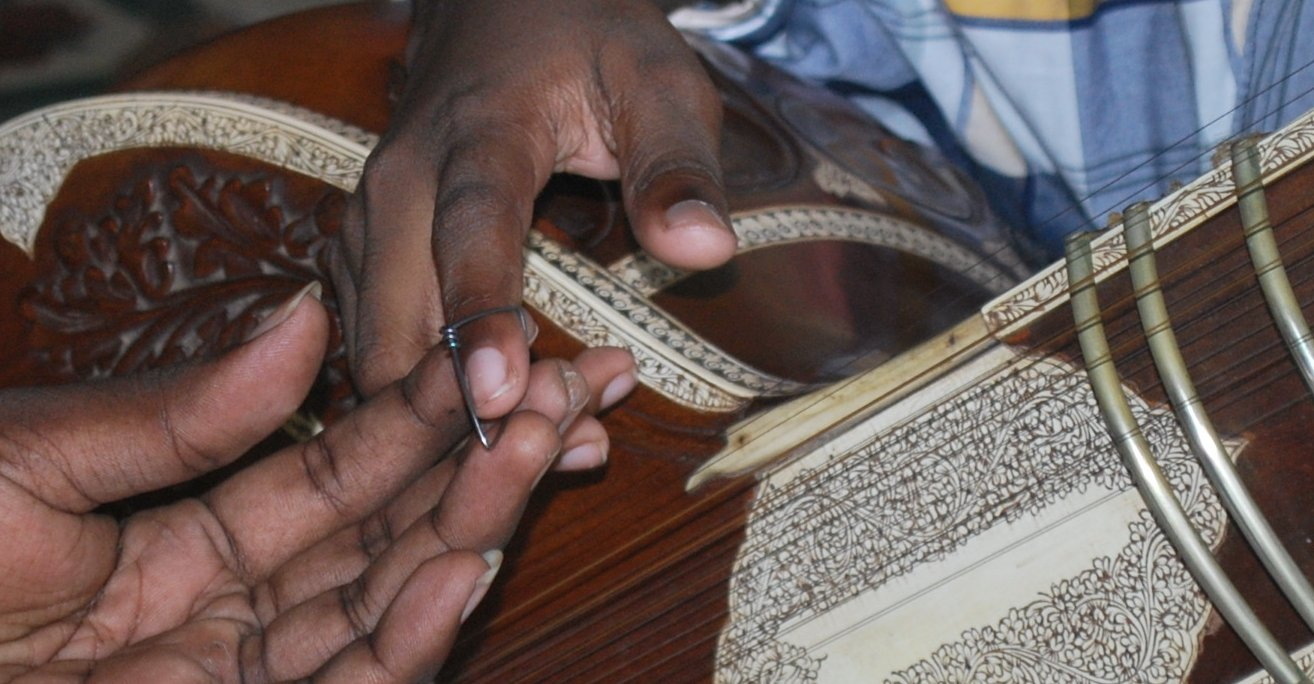 Sitar striker mirzab